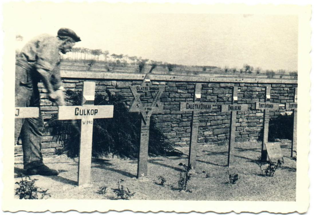 Czechoslovak section of WW2 cemetery in Dunkerque (France) in 1945